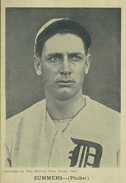 Portrait of Ed Summers published by Detroit Free Press 1908